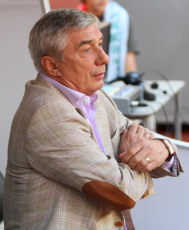 Georgi Yartsev at the Spartak Moscow - CSKA game in August 2011.